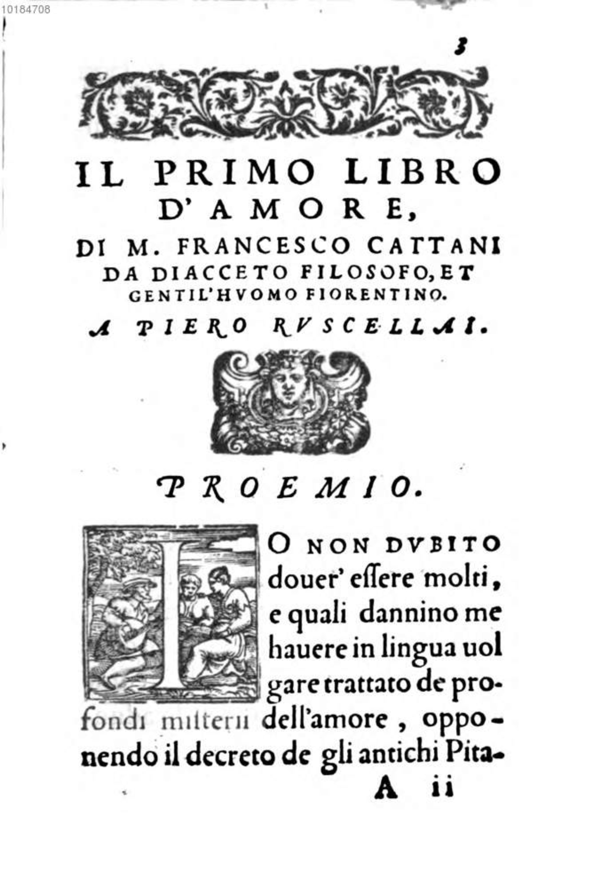 The beginning of Cattani's preface to his treatise "Tre libri d'amore" in the Venice edition of 1561. The author explains why he writes a philosophical treatise in Italian, not just in Latin as usual.